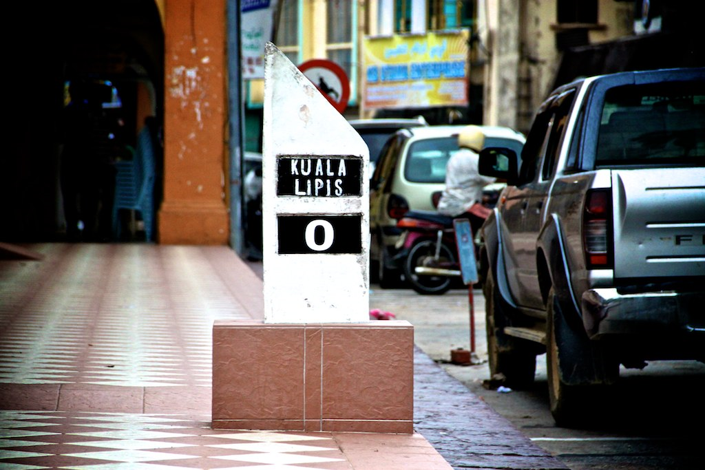 Boundary marker for the town of Kuala Lipis in Pahang, Malaysia.